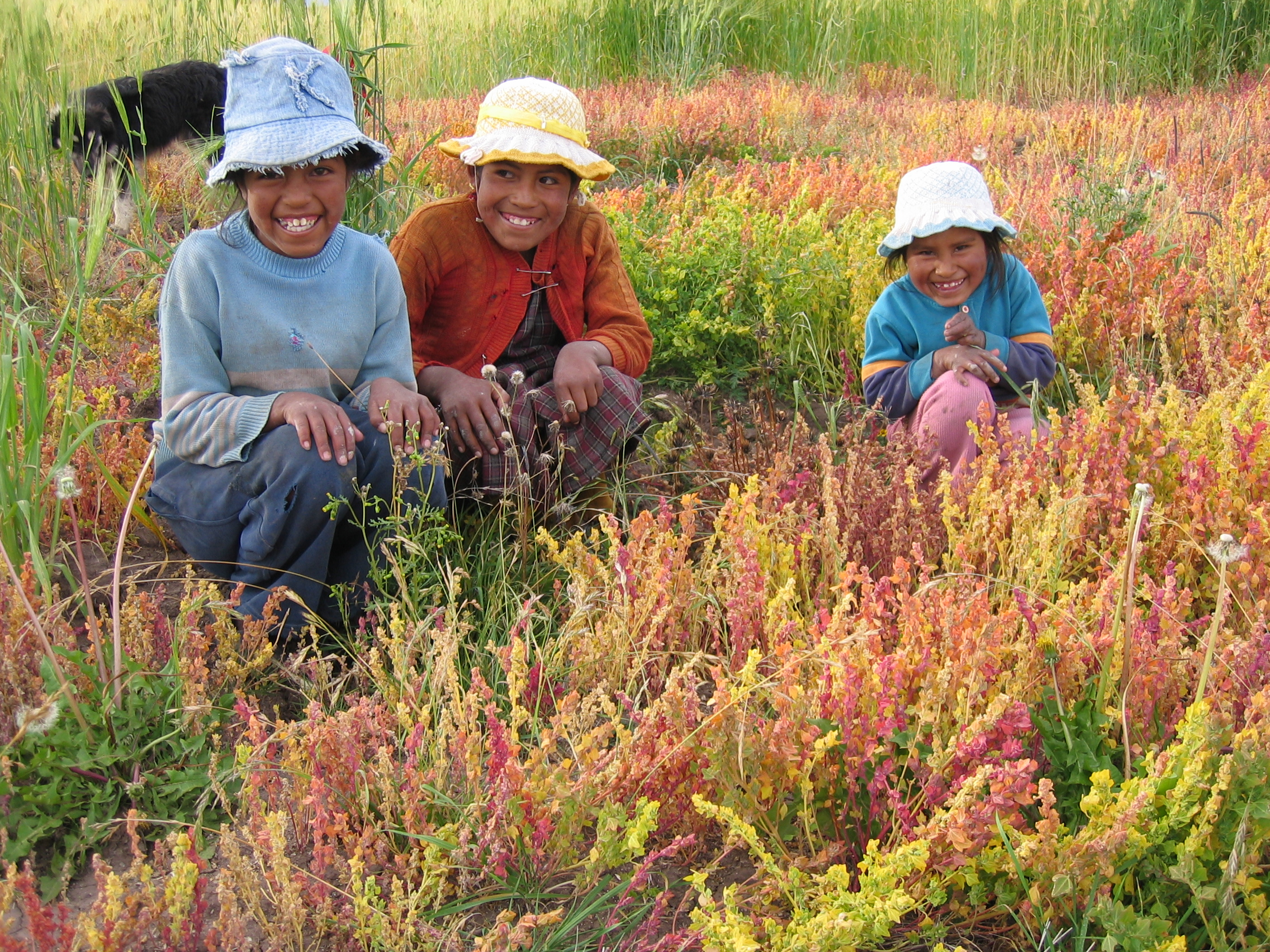 Rural children in a field of cañihua (Chenopodium pallidicaule), an edible grain, native to the Peruvian and Bolivian altiplano. Plants pictured are near harvest date. Location: Atuncolla, near Sillustani, Juliaca, Peru, altitude: ca. 3900 m